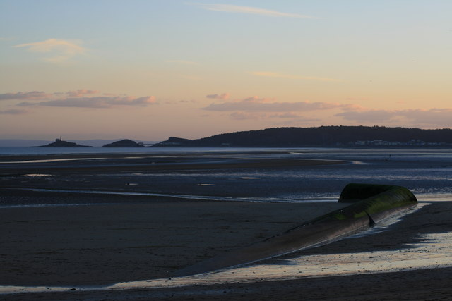 Swansea Bay Looking towards Mumbles lighthouse